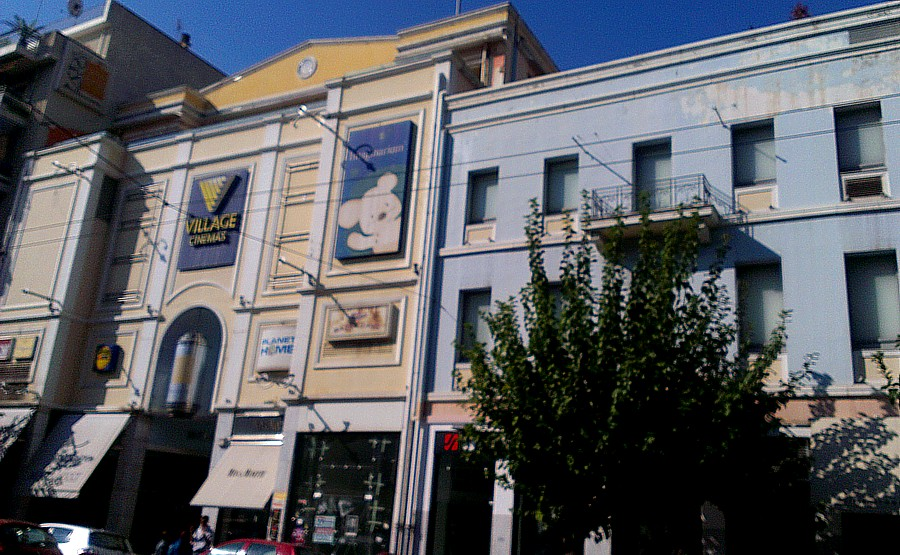 pagrati